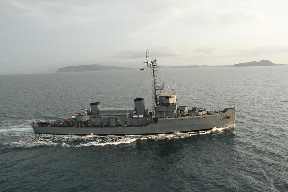 The Philippine Navy corvette / minesweeper frigate BRP Rizal (PS-74)